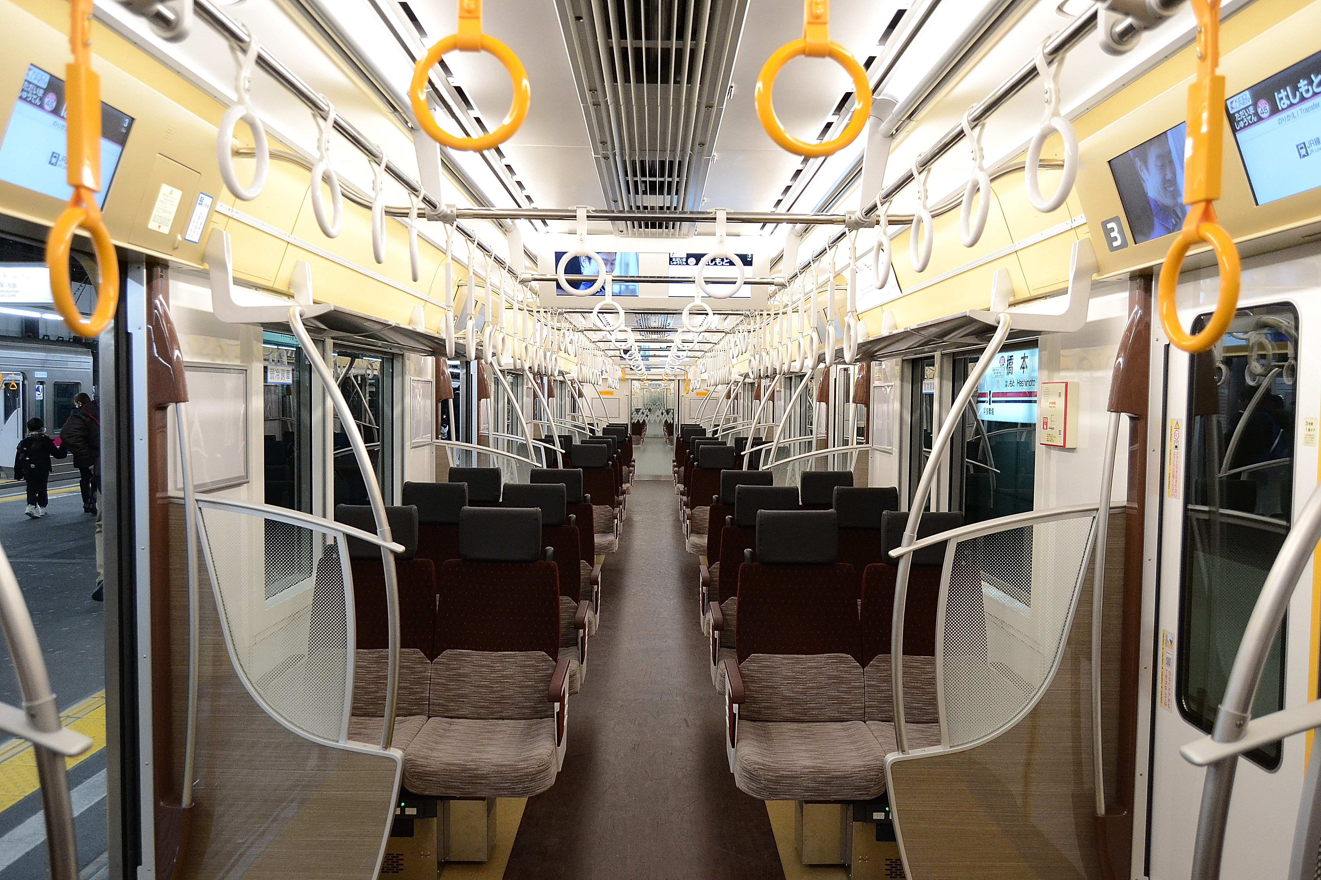 The interior of a Keio 5000 series EMU with seating arranged in transverse configuration for Keio Liner services